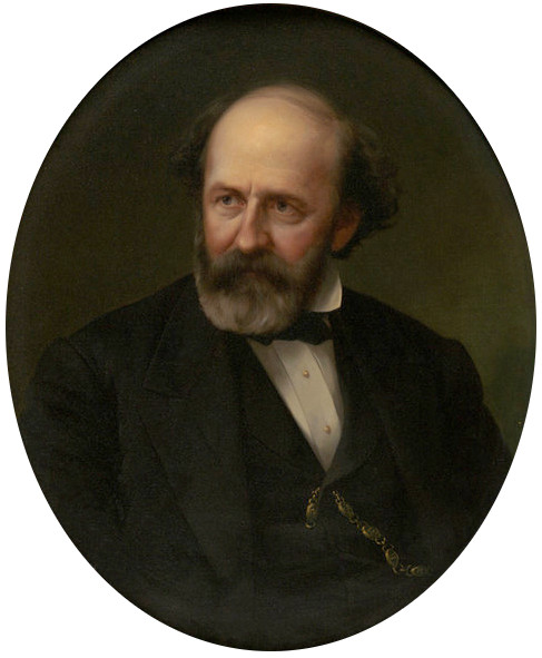 A portrait of railroad baron Collis P. Huntington by Stephen W. Shaw. The Crocker Art Museum, E.B. Crocker Collection holds the original - 1872 #380. Stephen W. Shaw painted over 200 portraits of prominent San Francisco businessmen from 1851 to 1900.